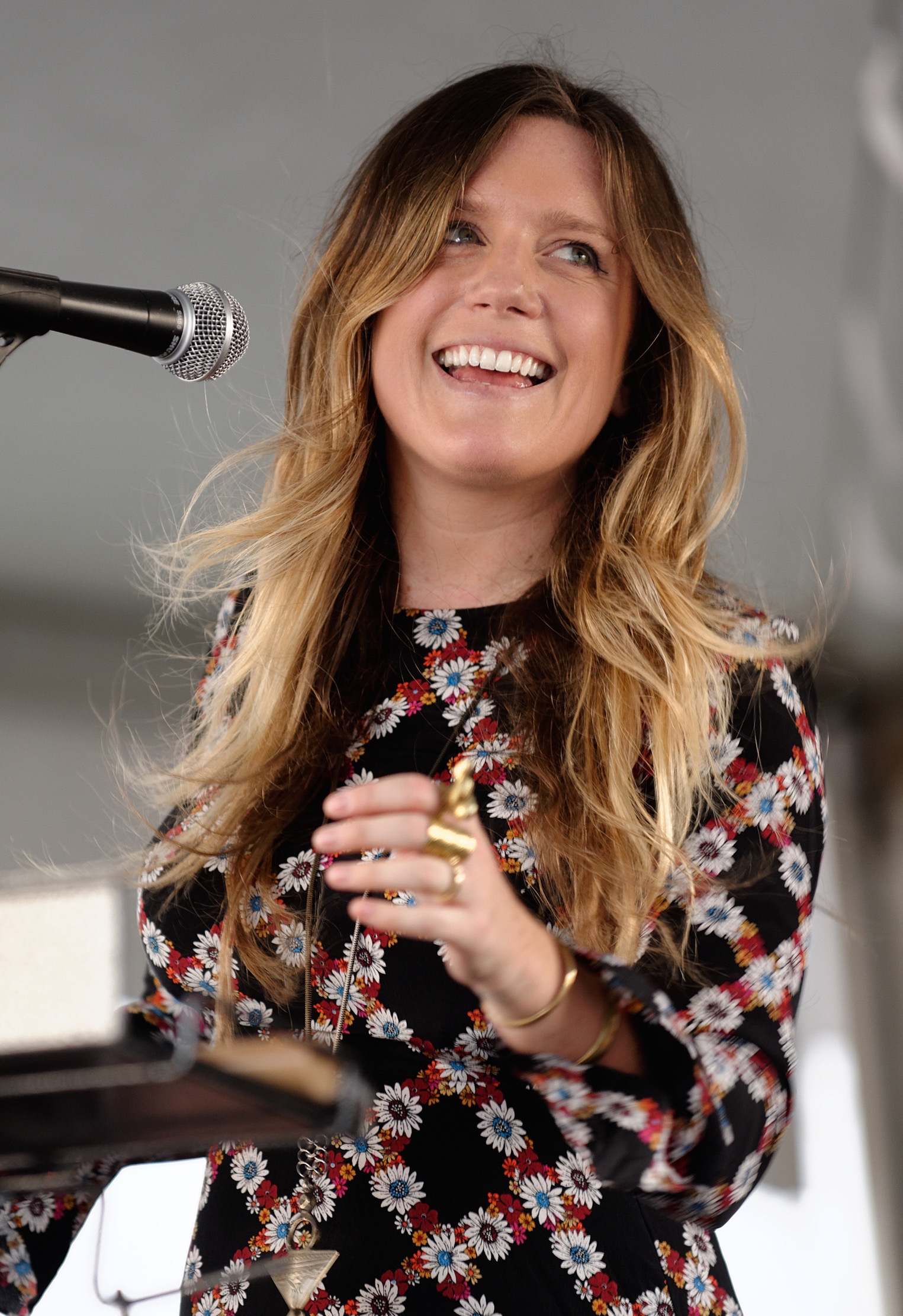 Marie Seyrat of Freedom Fry performing live at Taste of South Lake in Pasadena California on Saturday October 10th, 2015